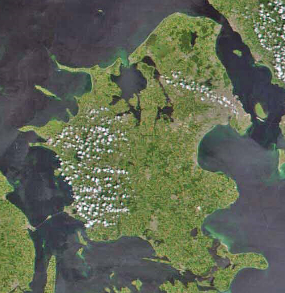 Sealand (Denmark)